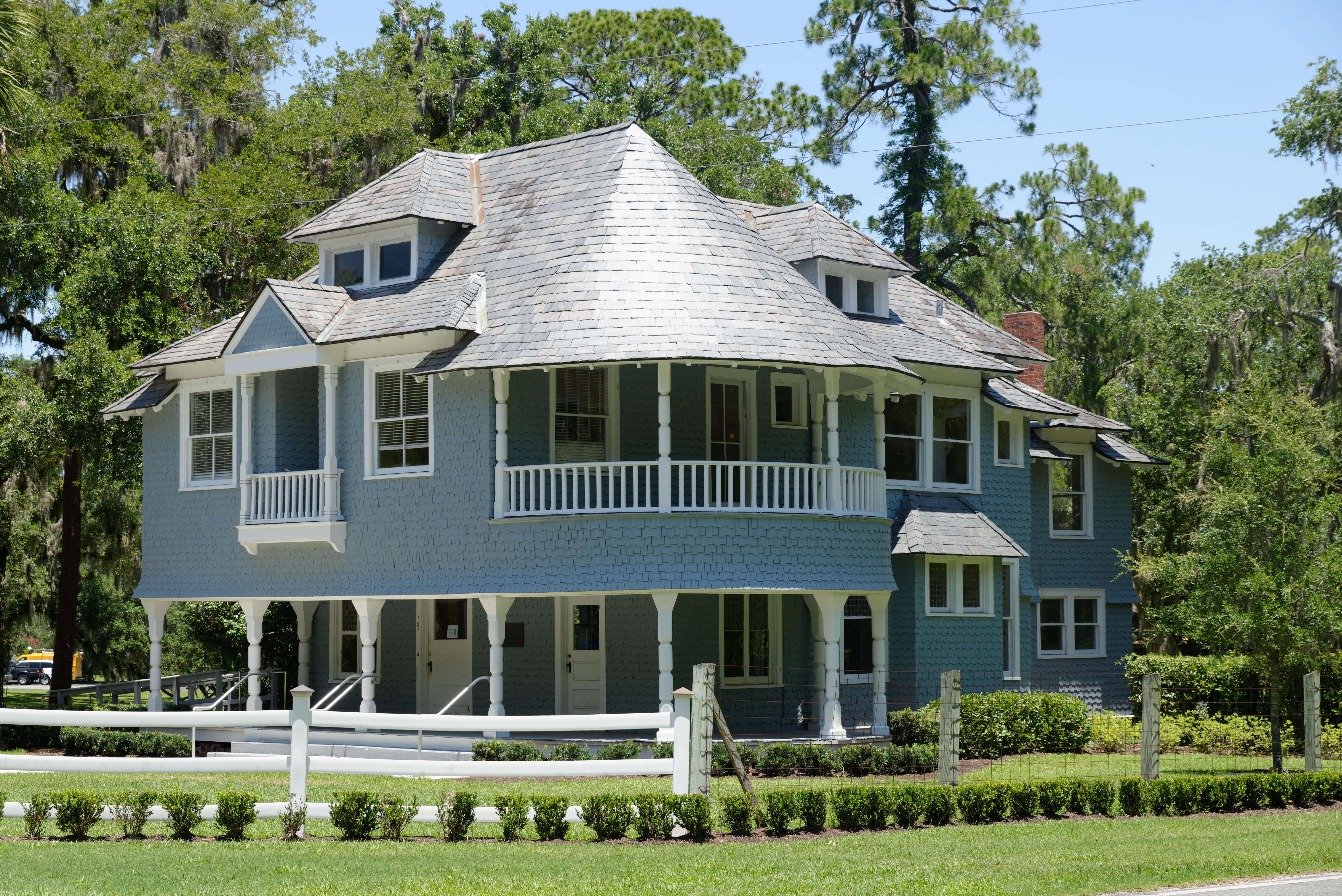 Furness Cottage, Jekyll Island Club Historic District, Jekyll Island, Georgia, U.S. This is the old infirmary.